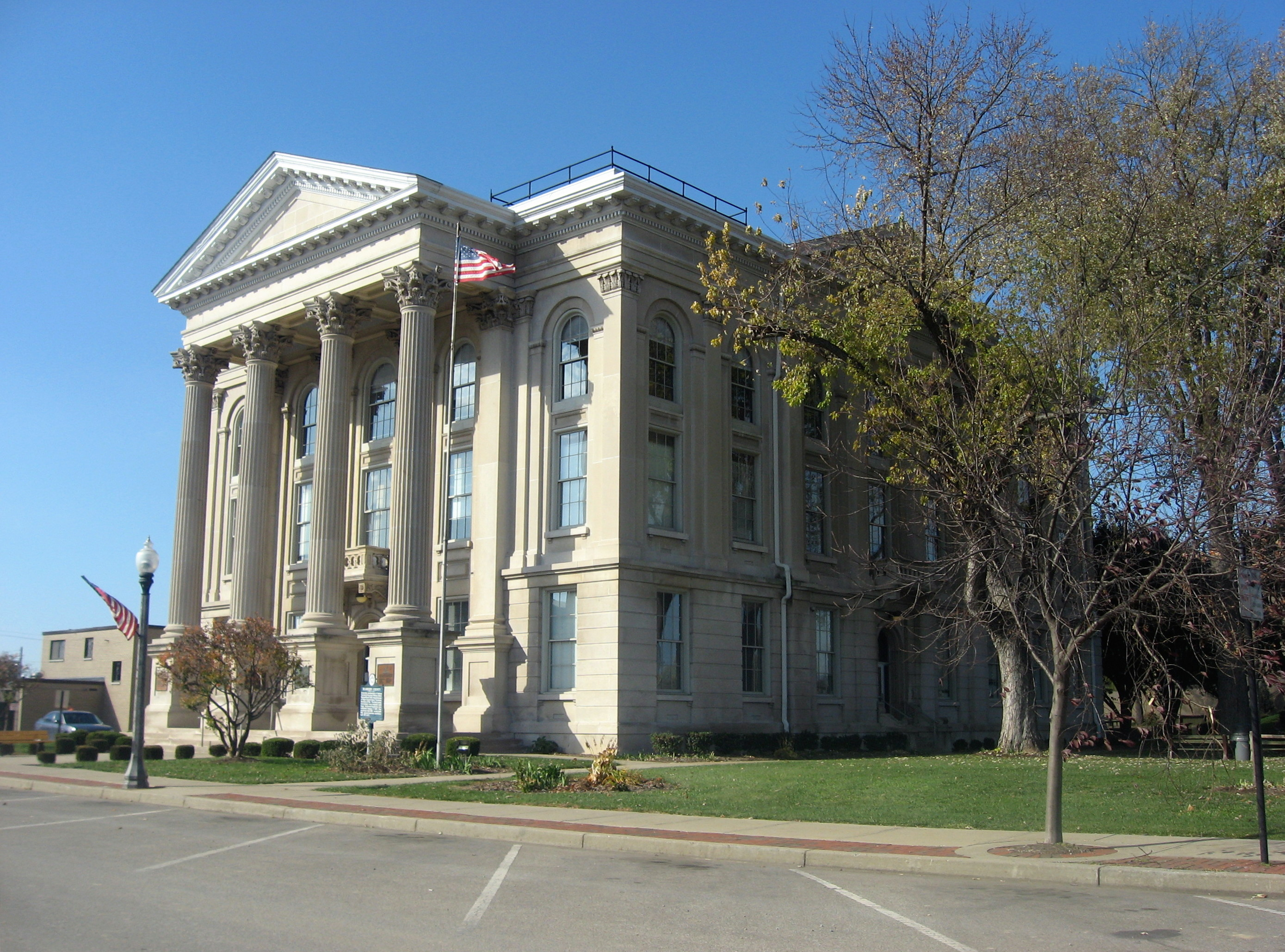 Front and eastern side of the Dearborn County Courthouse, located on the western corner of the junction of High and Mary Streets in Lawrenceburg, Indiana, United States. Built in 1870, it is listed on the National Register of Historic Places, and it is part of a Register-listed historic district, the Downtown Lawrenceburg Historic District.